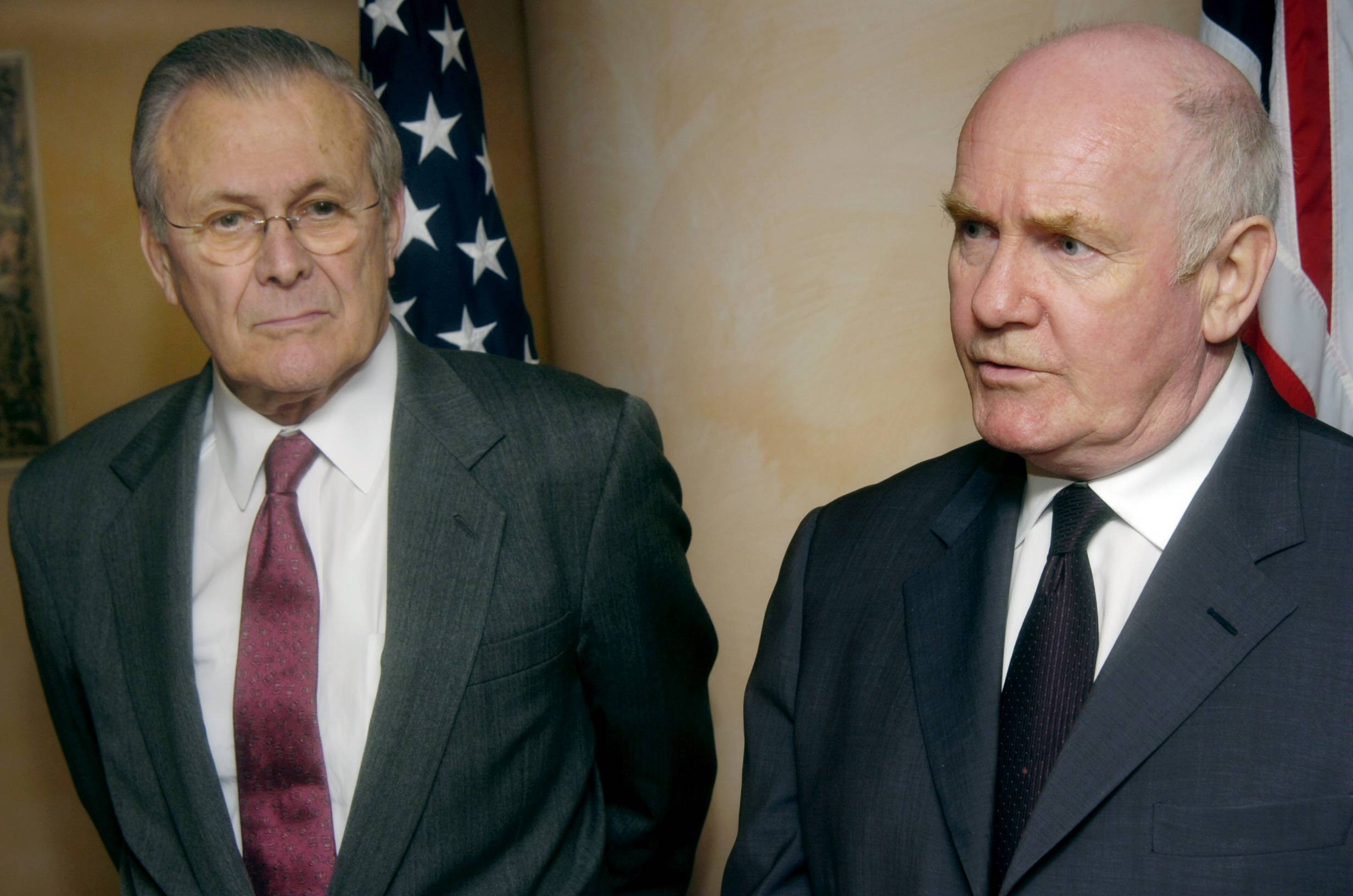 Secretary of Defense Donald H. Rumsfeld (left) listens as Secretary of State for Defense of the United Kingdom John Reid responds to a question from the press after their bilateral meeting in Taormina, Sicily, on Feb 9, 2006. Rumsfeld, Reid and their NATO counterparts are in Taormina for NATO Ministerial and bi-lateral meetings to discuss transformation and security issues. DoD photo by Petty Officer 1st Class Chad J. McNeeley, U.S. Navy. (Released))